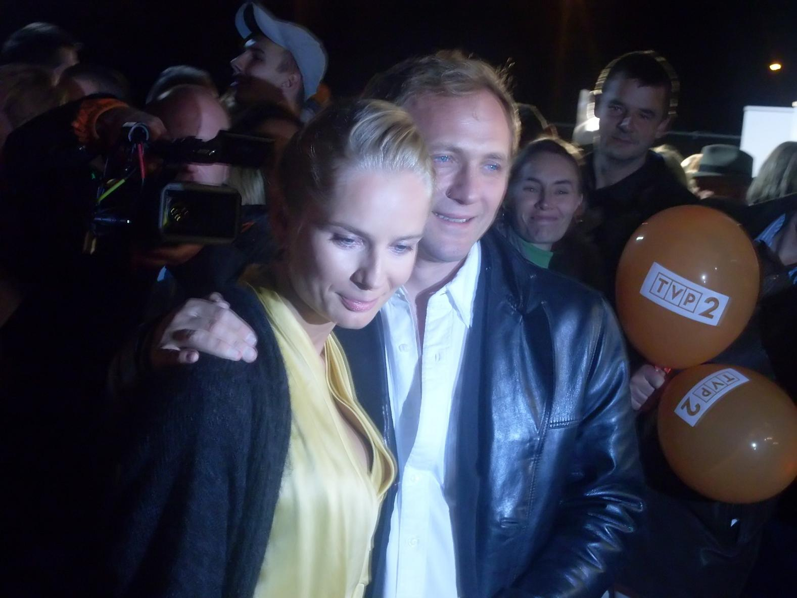 Polish actress Magdalena Cielecka and polish actor Andrzej Chyra at Polish Film Festival in Gdynia.